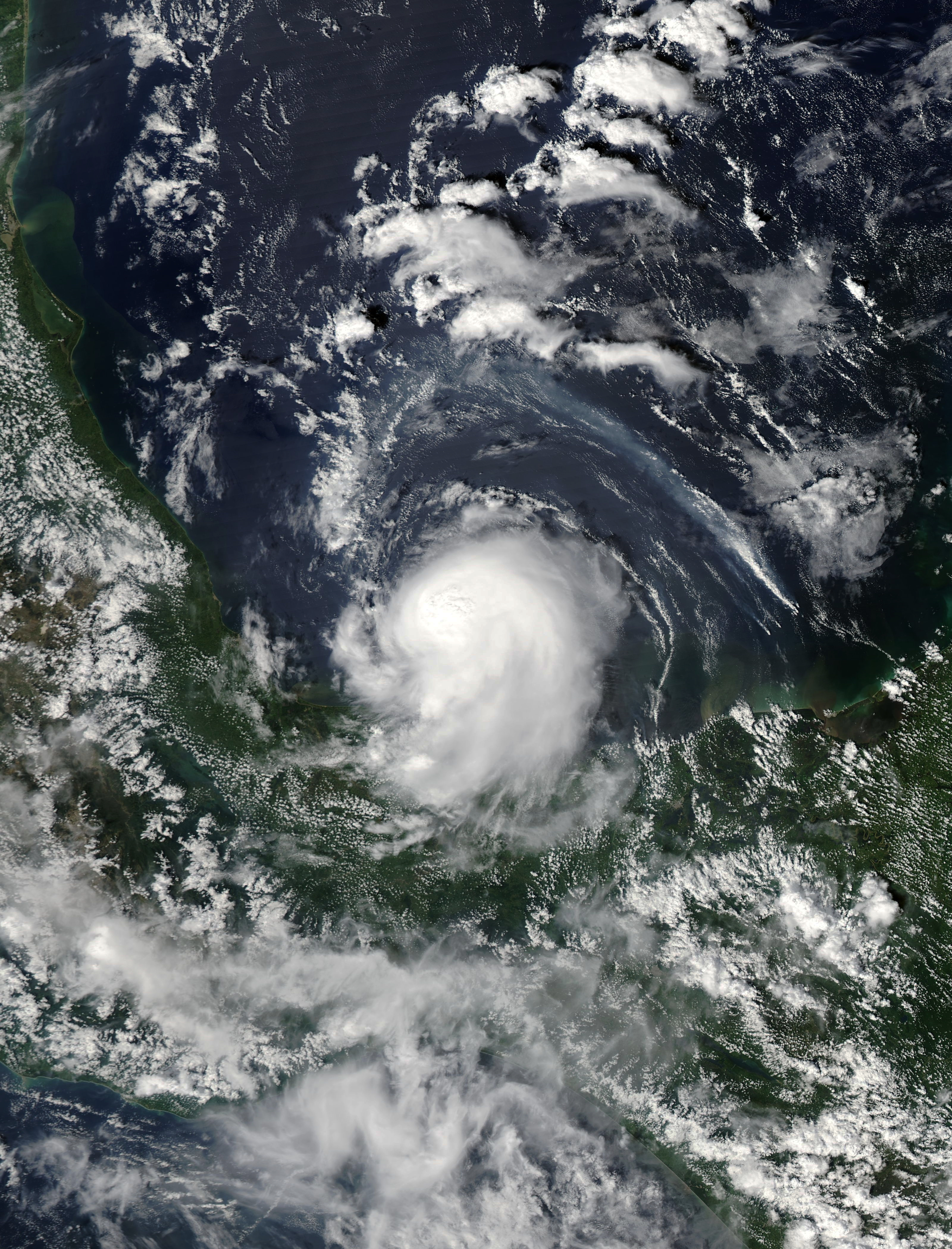 Tropical Storm Marco (2008) on October 6, 2008.